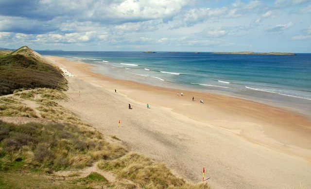 The White Rocks near Portrush (1) The White Rocks are chalk cliffs and formations to the east of Portrush. Add a firm sandy beach, backed by dunes by the north Atlantic and you have a most attractive setting. The Skerries are at top right.